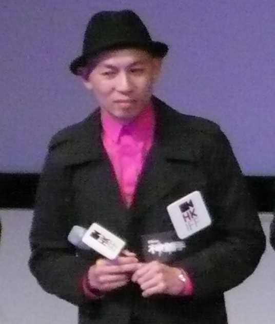 Dante Lam at the 2009 Hong Kong International Film Festival